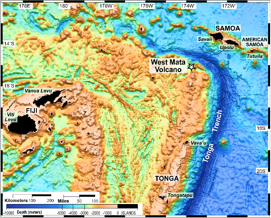 West Mata Volcano, in the Lau Basin, is located in the southwest Pacific, within an area bounded by Samoa, Tonga and Fiji